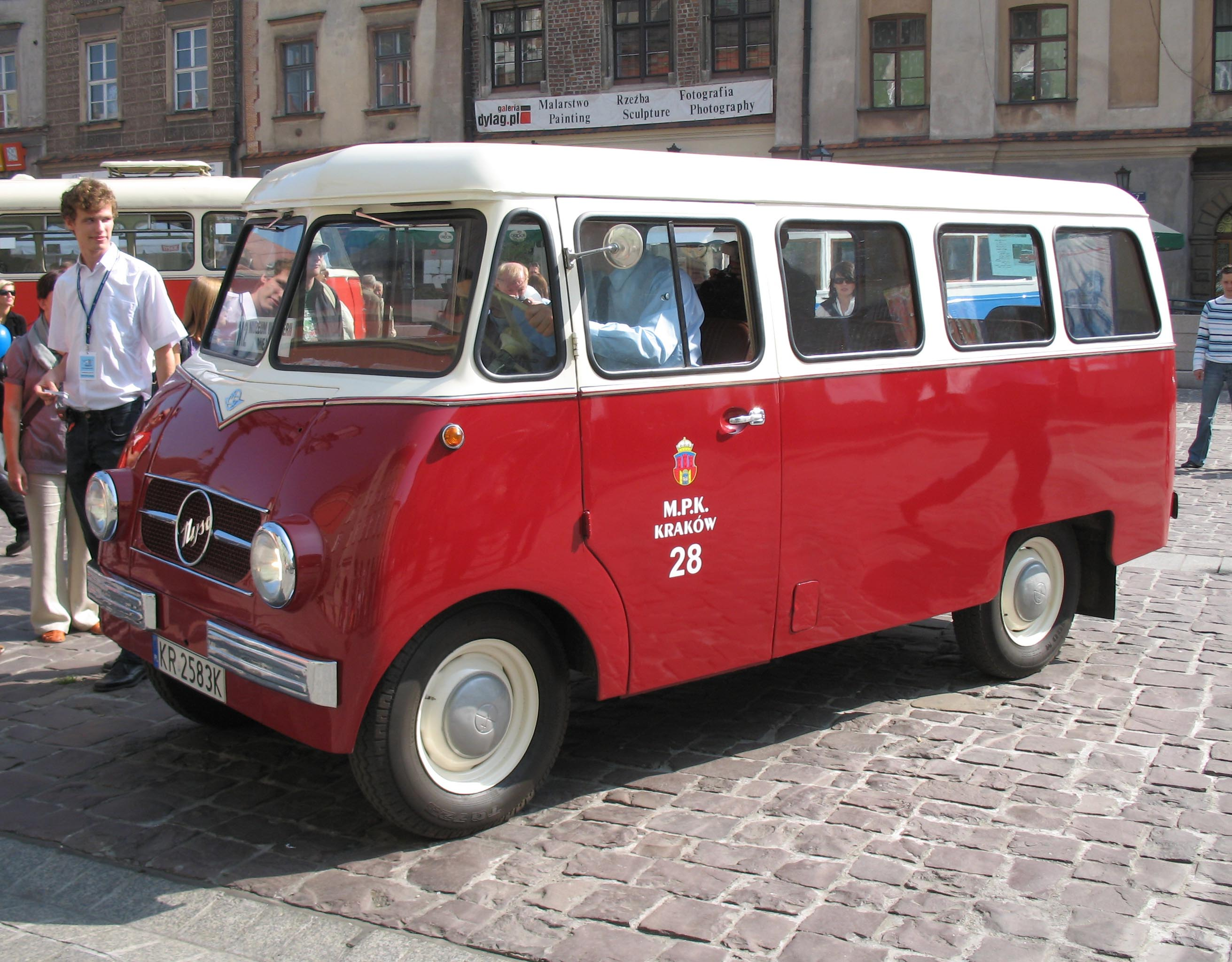 Nysa N59 microbus (#28) in Kraków, Poland. Built 1959, MPK Kraków operator.